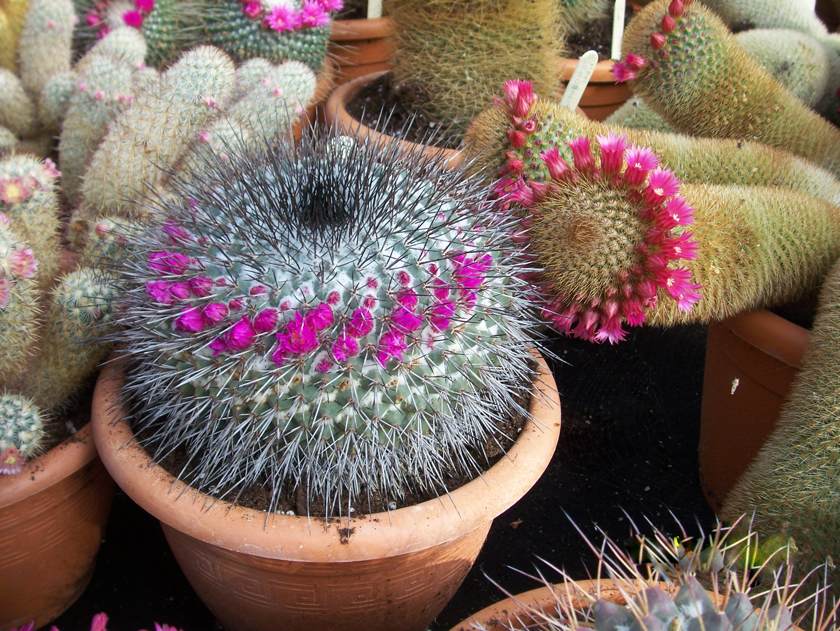 The natural habitat of this Mammillaria is in Mexico - spread across the states of Coahuila, Nuevo Leon, and Durango. It grows in cracks in rocks, and on stony outcrops. It will tolerate light shade. Part of the private collection of cacti and succulents at Manor Nursery, Angmering, West Sussex. The collection is open to the public (free of charge) during normal garden centre hours. For more information